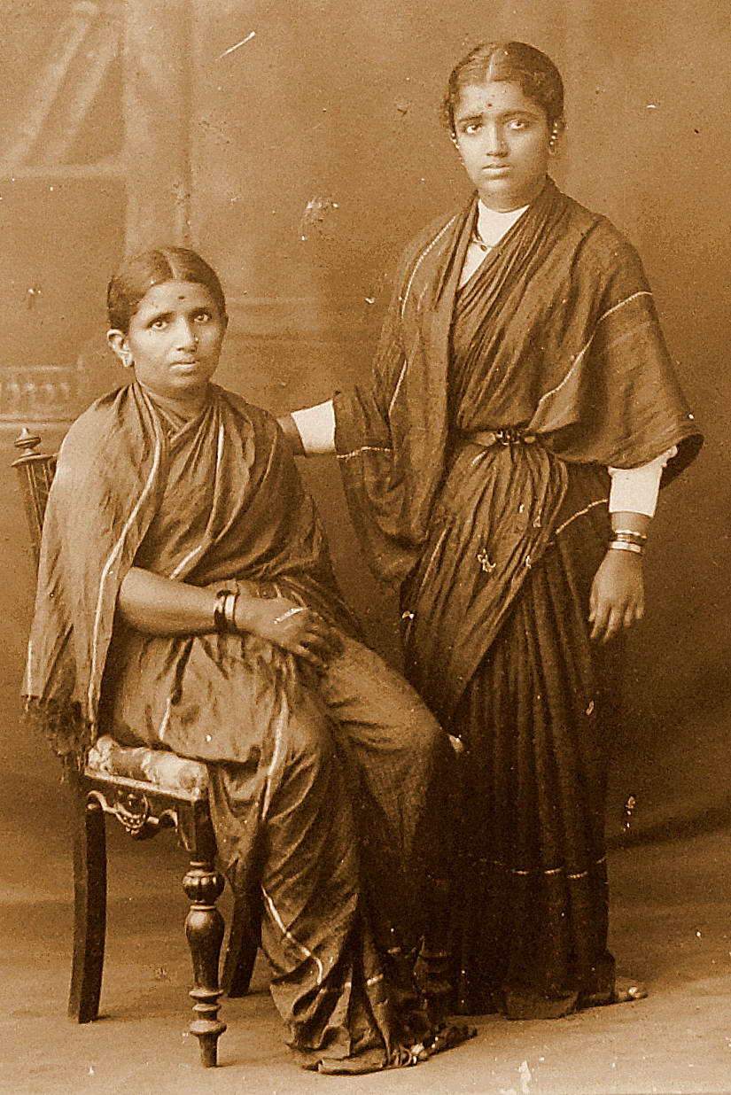 Photograph of M. Hiriyanna's wife (sitting - Lakshmidevamma) with M. Hiriyanna's daughter (Rukkamma)